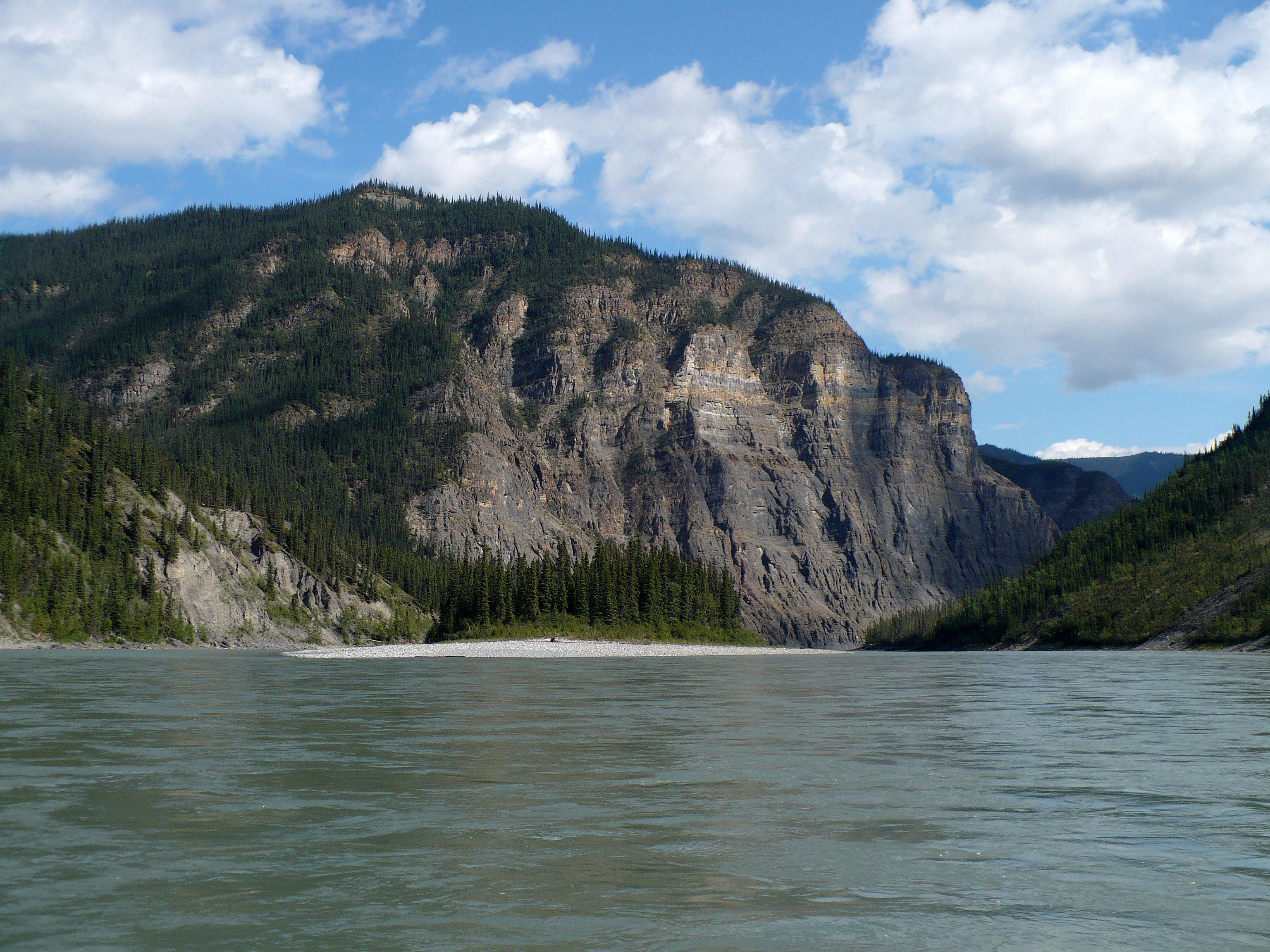 Third Canyon, Nahanni River, Northwest Territories, Canada